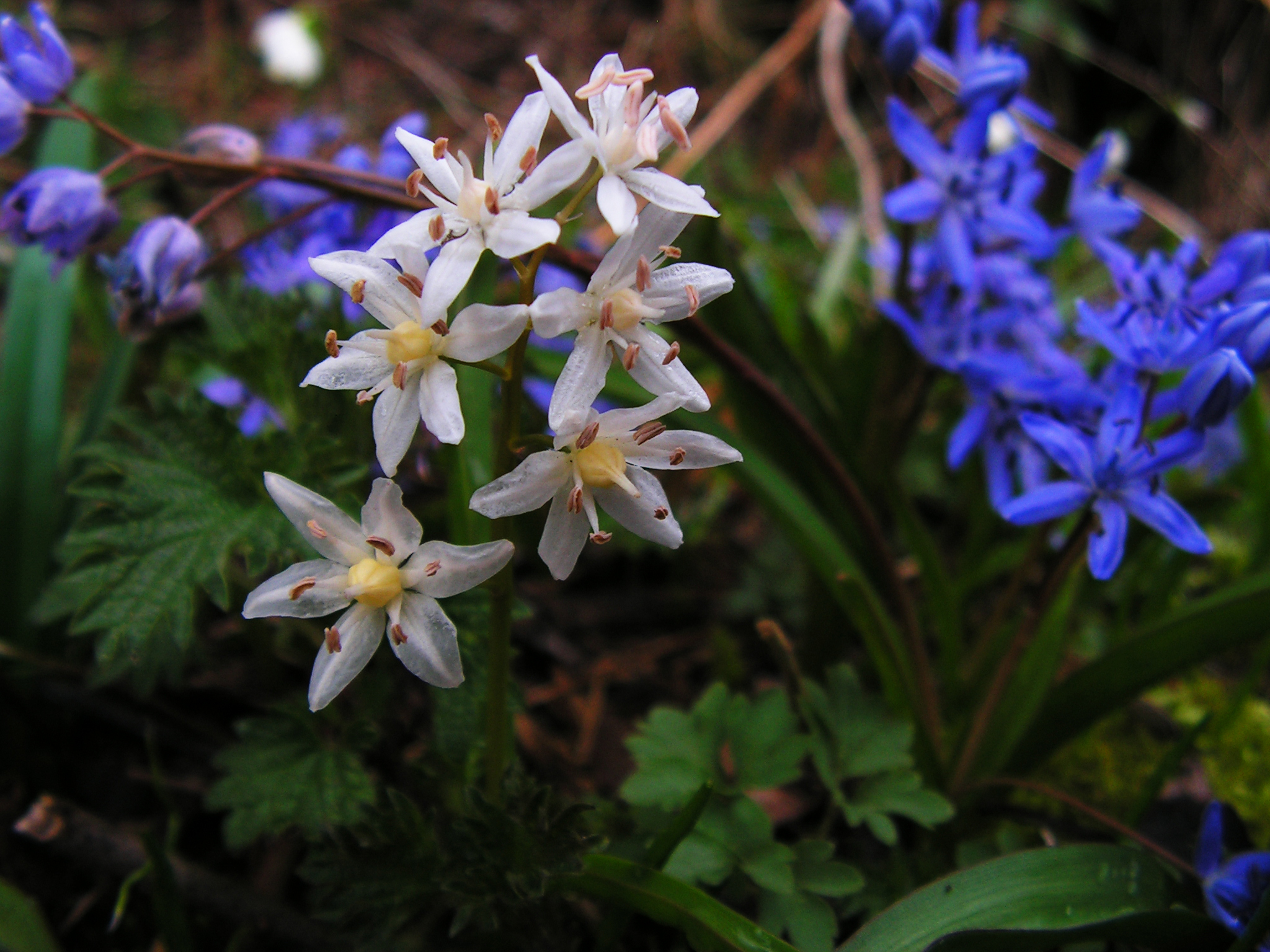 White Scilla bifolia, Isère (France)